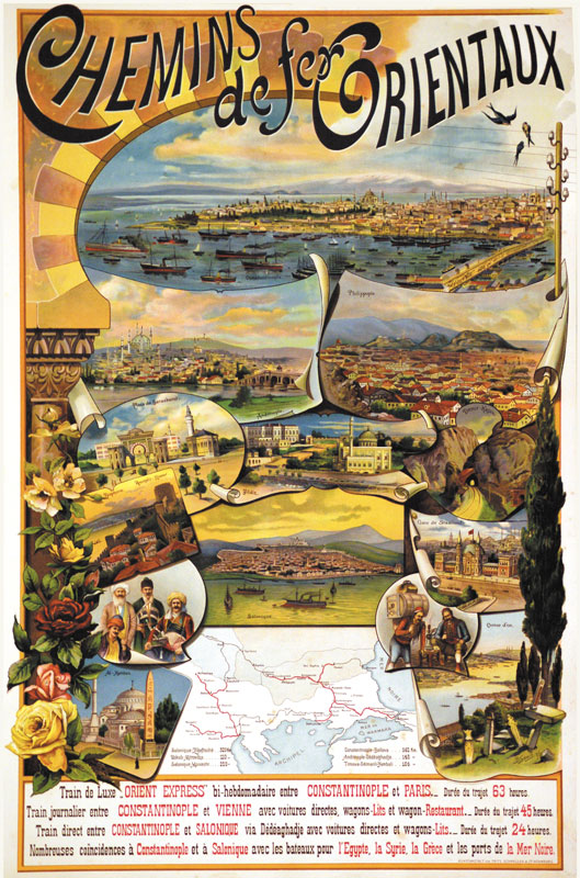 Affiche Chemins de fer Orientaux (1898)